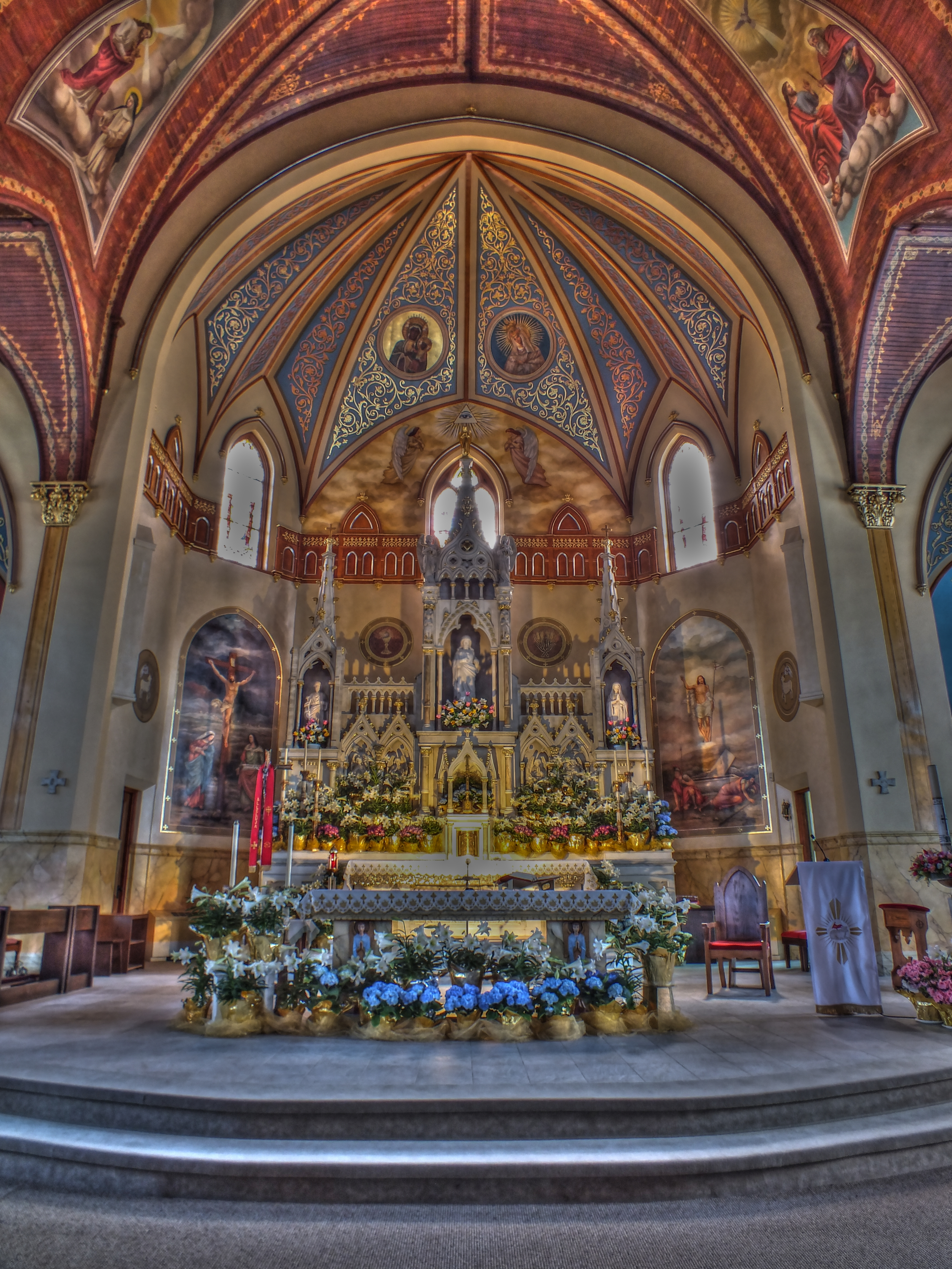 Sacred Heart Church in New Britain CT Main altar. Picture taken in High Dynamic Range